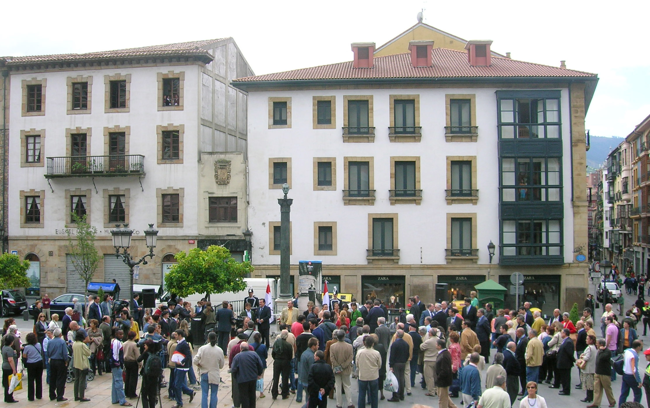 Tribute to Miguel de Unamuno in Unamuno Square, around 100 m from the house the writer was born in, in Bilbao old town, Biscay, Spain. The column supports a sculpture of Unamuno's head. The man on a yellow shirt besides the monument is Eduardo Maiz, city councillor of Local Police. The major Iñaki Azkuna can also be seen. The white building at the left is the Basque Museum (Basque Archeologocal, Etnographical and Historical Museum).